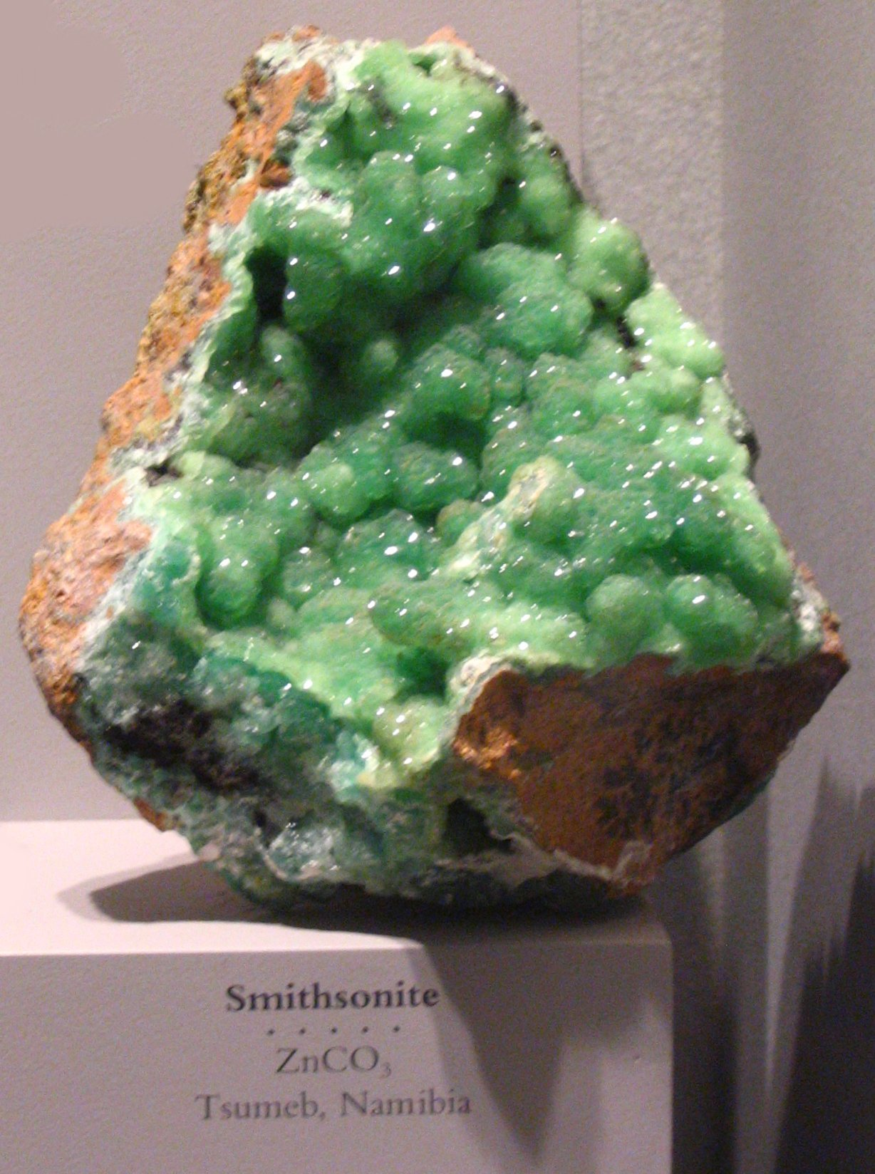 A large sample of smithsonite (also known as zinc spar, ZnCO3) from Tsumeb, Namibia.